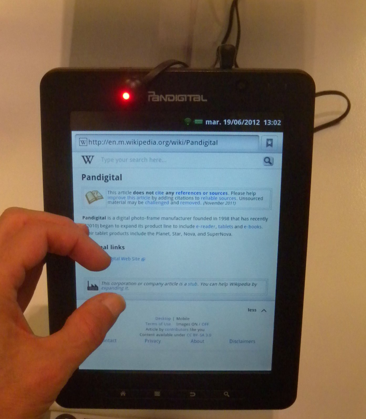 Pandigital E-reader showing the Wikipedia page about its manufacturer.